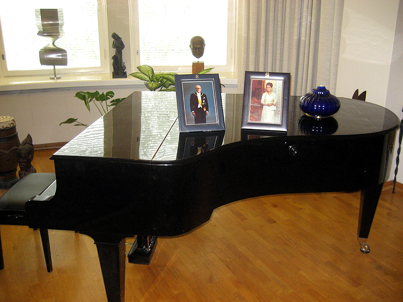 A piano at Urho Kekkonen Museum in Helsinki, Finland.